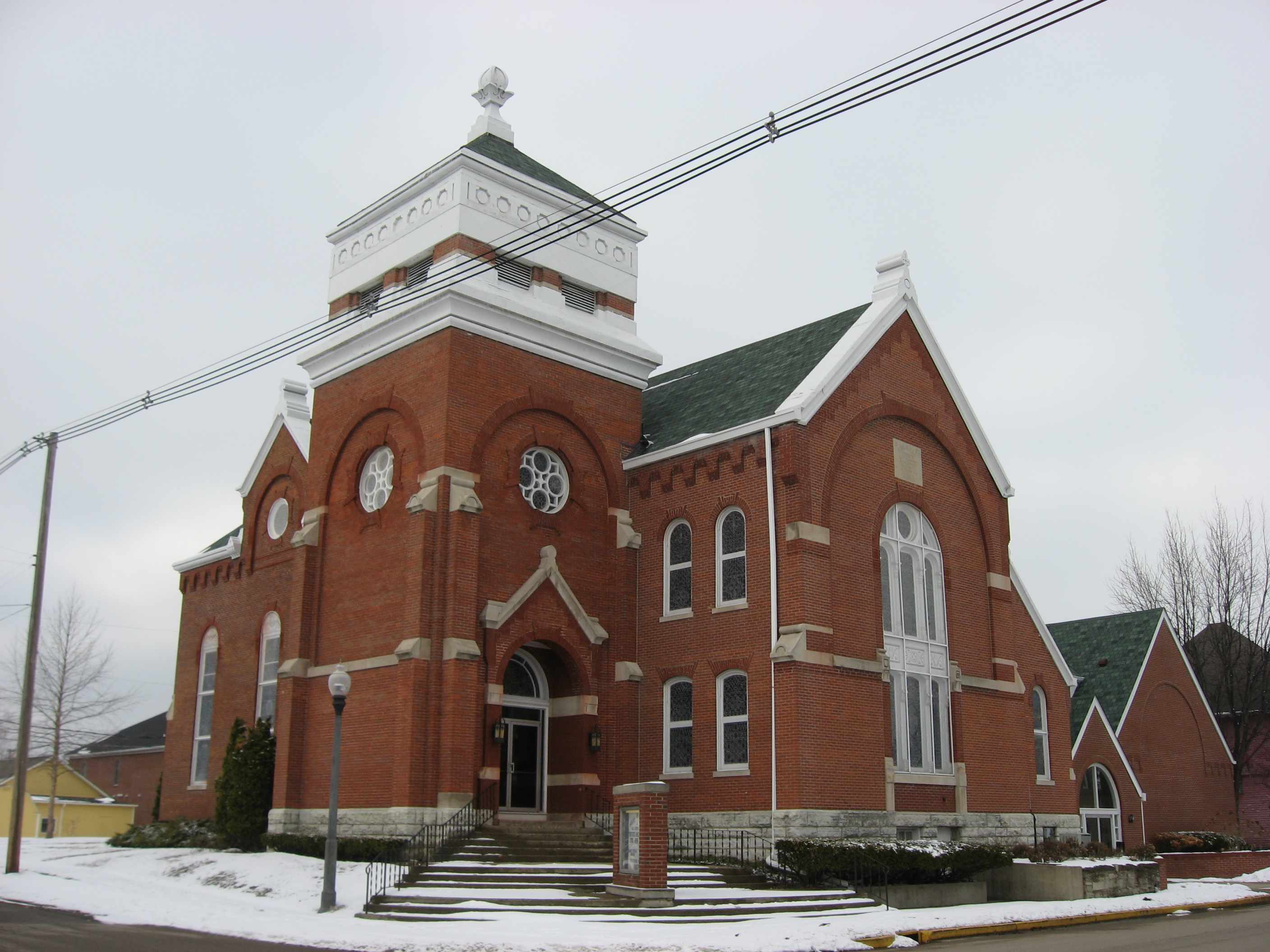 Front of the House of Mercy Full Gospel Church (formerly First Christian Church), located at 306 S. Walnut Street in Edinburgh, Indiana, United States. Built in 1887, it is part of the South Walnut Street Historic District, a historic district that may be listed on the National Register of Historic Places.